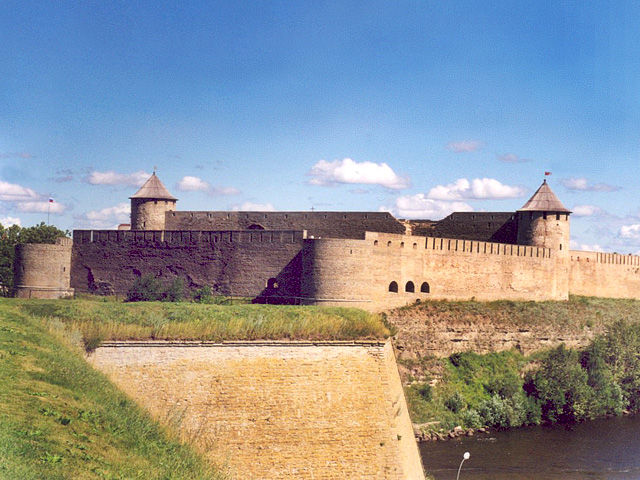 Ivangorod fortress